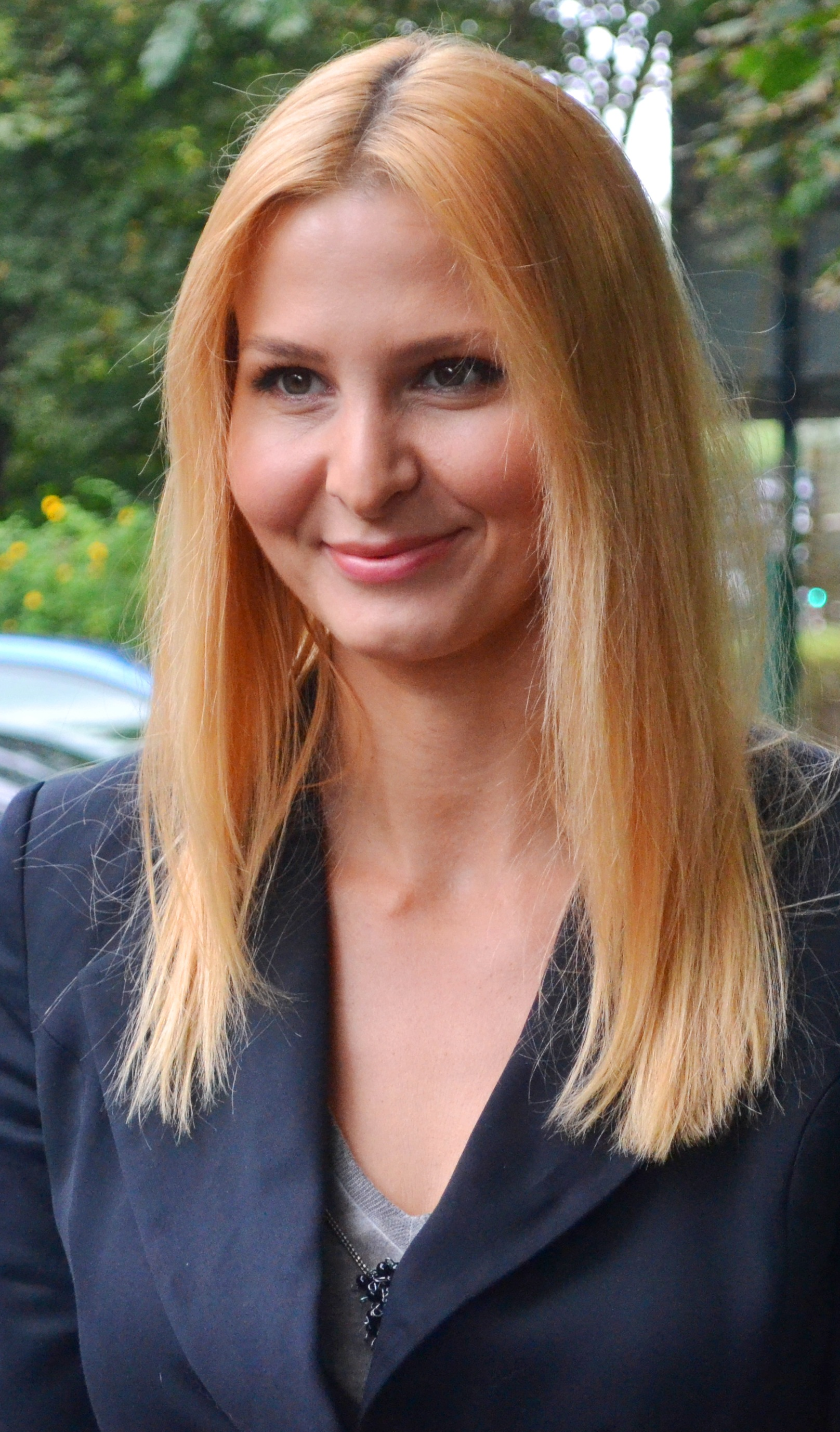 Ivana Gottová, Czech TV presenter